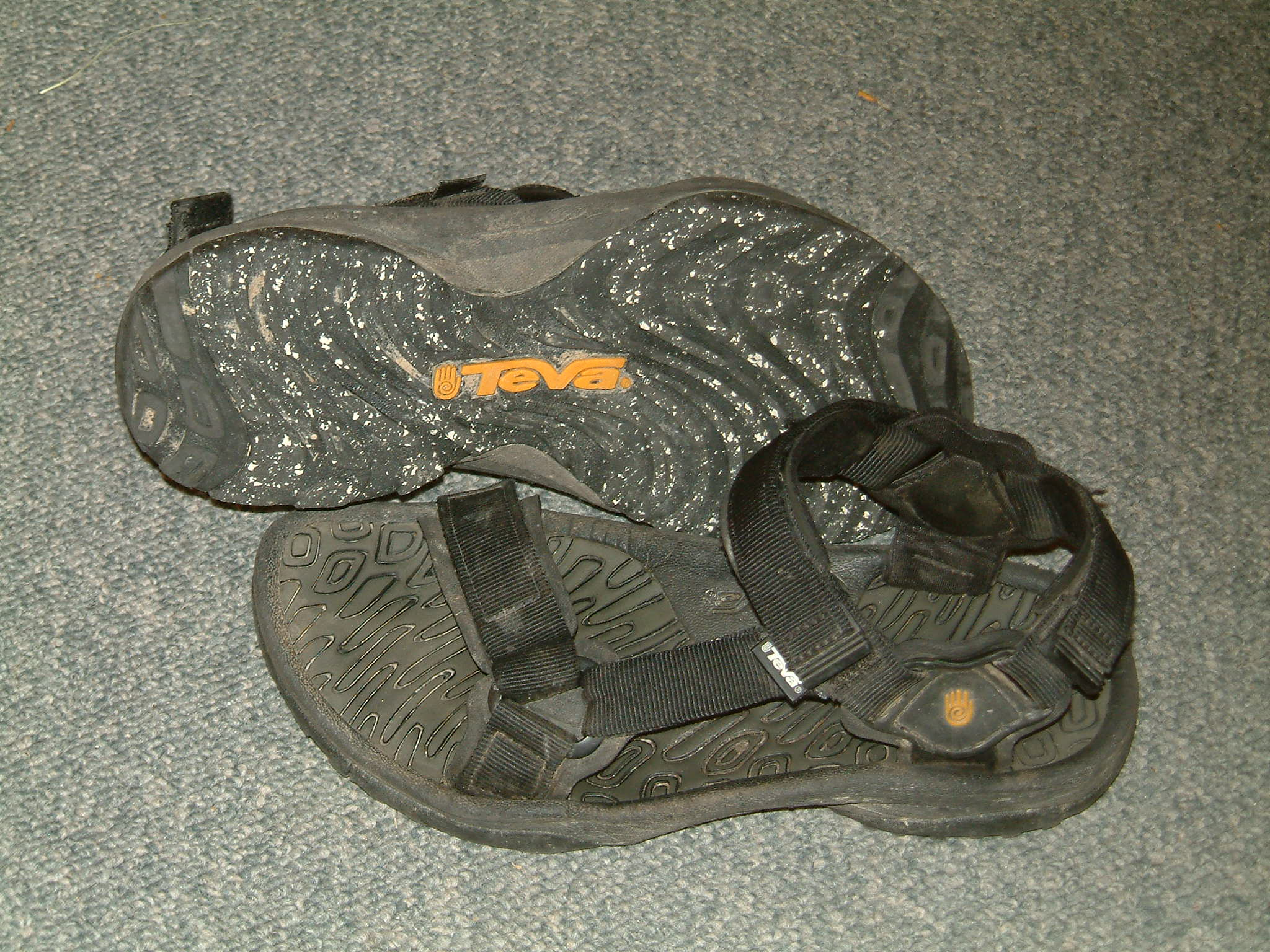 A pair of Teva® brand sport sandals. Photo taken by Connor Lee.